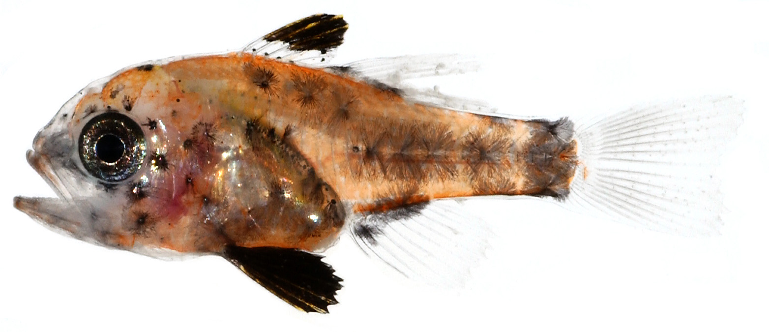 Description: The standard length of the juvenile cardinalfish is nine millimeters. This image was taken with a Nikon D1X 5.47-megapixel camera with a 105-millimeter f/2.8D AF Micro-Nikkor lens and dual Nikon SB28 flash units. Creator/Photographer: Belize Larval-Fish Group 2002 The Division of Fishes of the Smithsonian's National Museum Natural History has sent several teams to Belize in order to photograph larvae in the field. The 2002 team included Julie H. Mounts, David G. Smith, Carole C. Baldwin, and James Van Tassell. Medium: Digital photograph Geography: Belize Date: 2002 Persistent URL: [1] Repository: National Museum of Natural History, Division of Fishes Image ID: C2-12